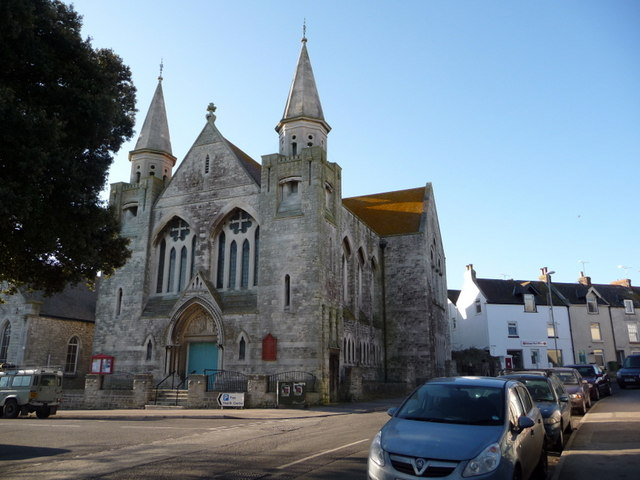 Easton Methodist Church, Easton Square, Portland, Dorset, seen from the east